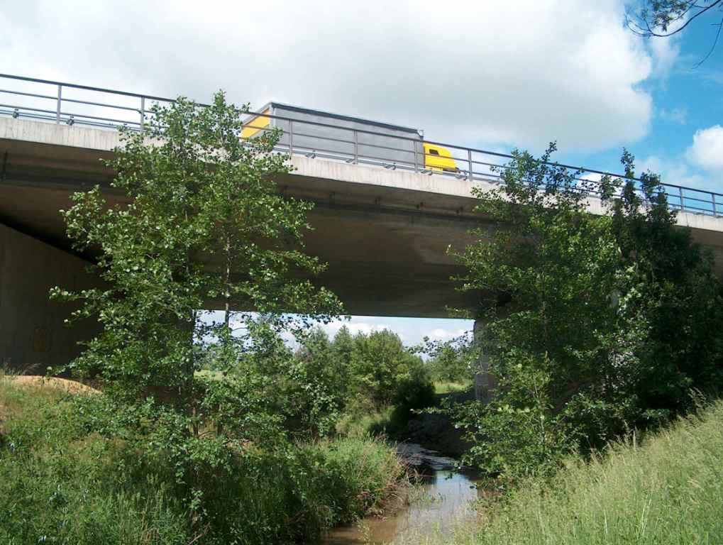 River Schwarzwasser under motorway A4